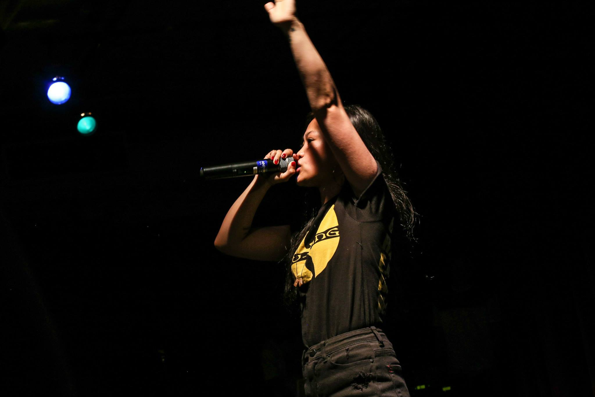 Ibarra performing in San Francisco in 2014